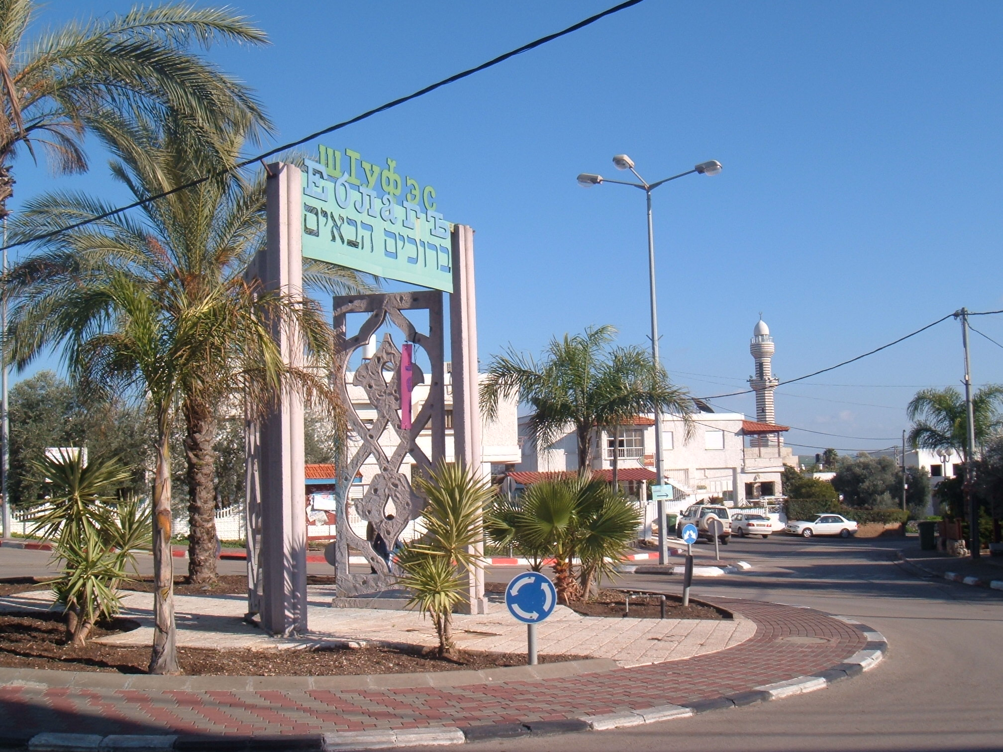 Kafr-Kama כפר כמא